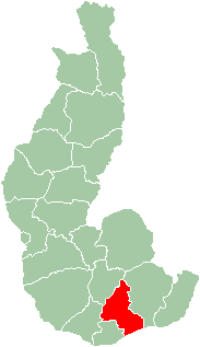 Location map of Ambovombe-Androy region in Toliara province.